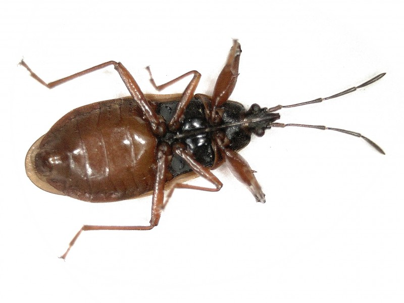 Gastrodes abietum (Lygaeidae) - (imago), Molenhoek - NS-terrein, the Netherlands